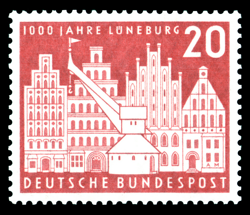 1000 years of Lüneburg (Lower-Saxony)